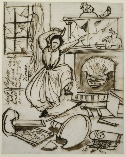 A cartoon caricature of Christina Rossetti by her brother Dante Gabriel Rossetti 1862, showing her having a tantrum after reading The Times review of her poetry.